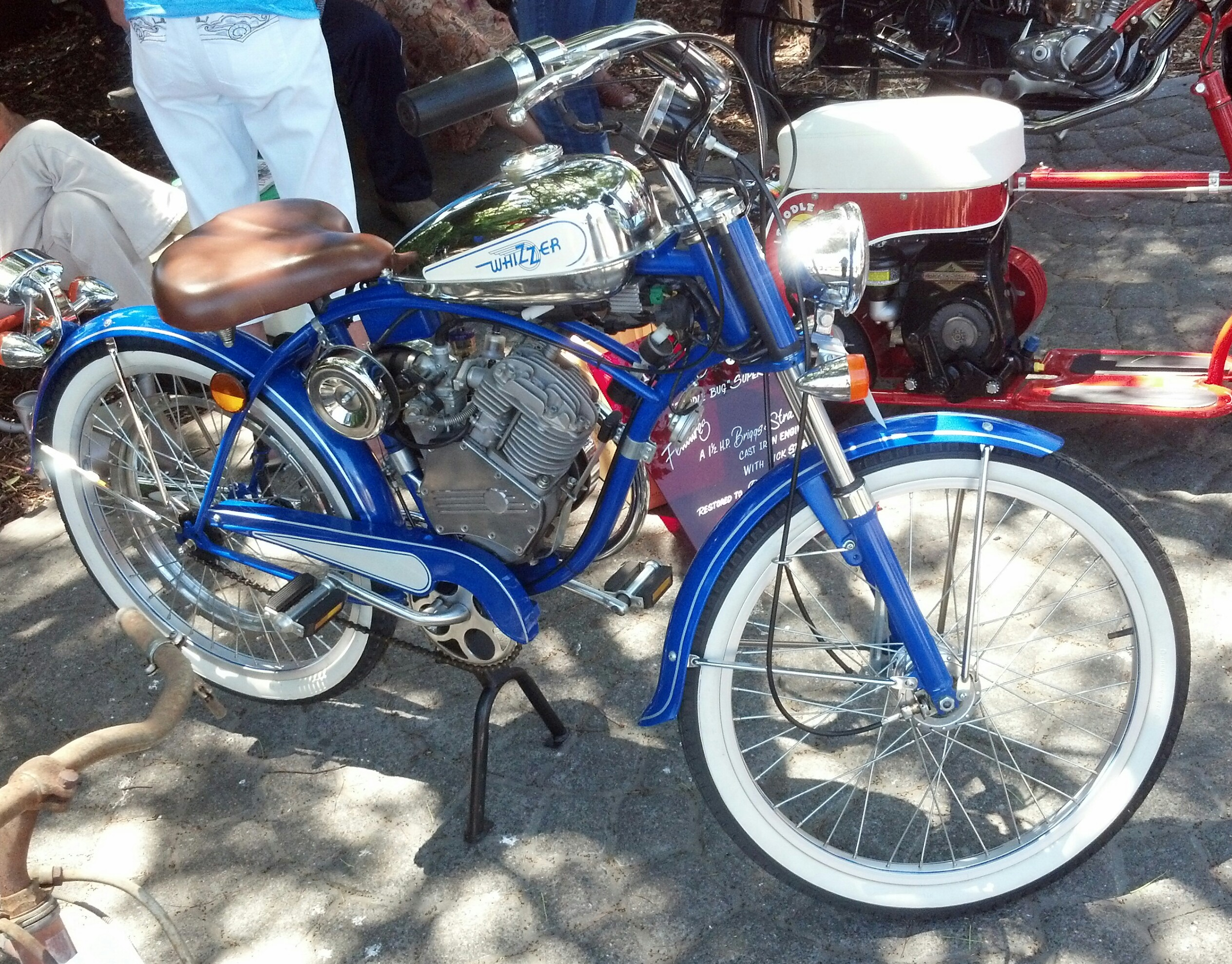 A restored Whizzer on display in Yountville, California. Photo by Jim Heaphy.